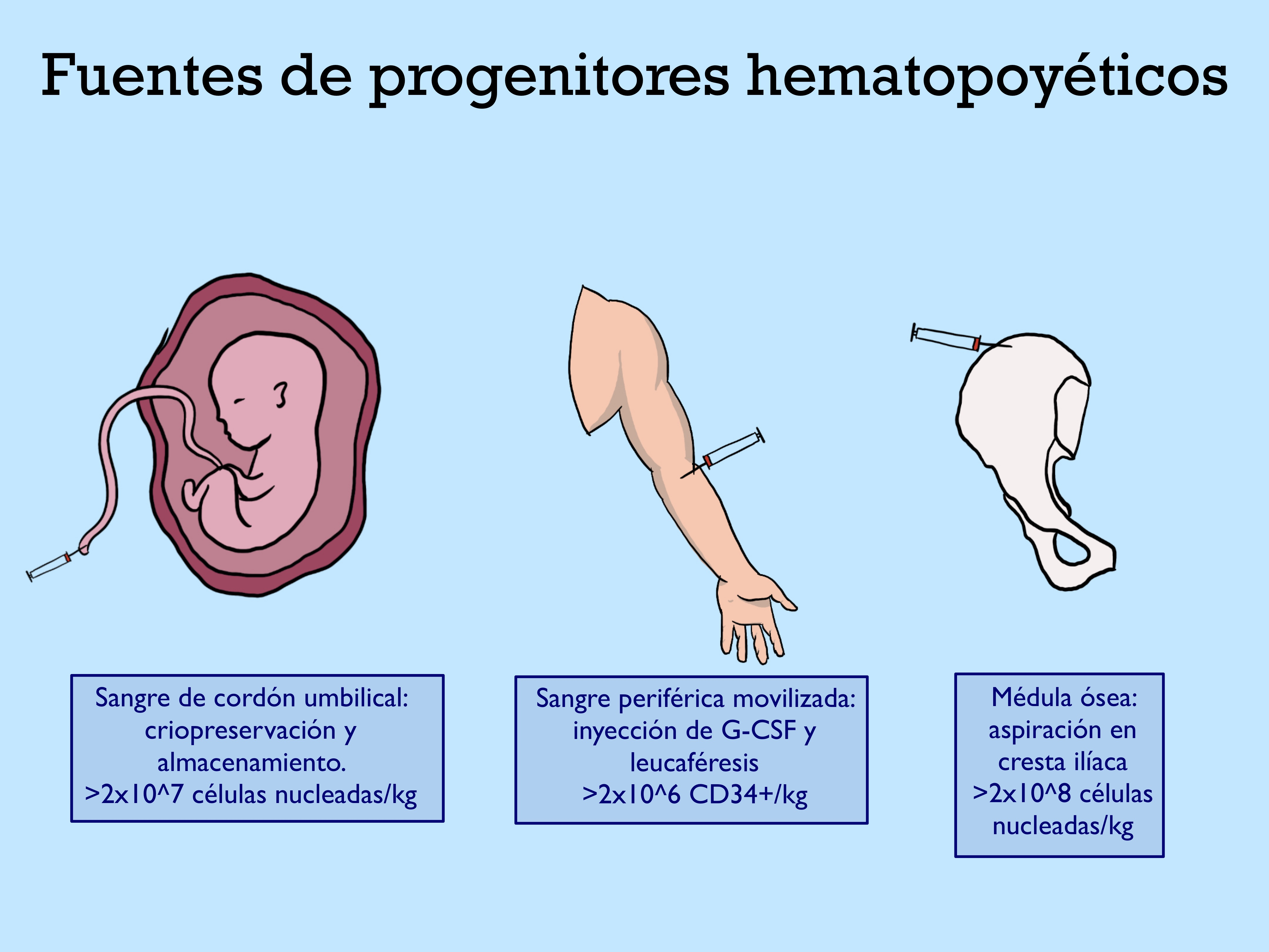 It explains the 3 main way to obtain hematopoietic precursors.